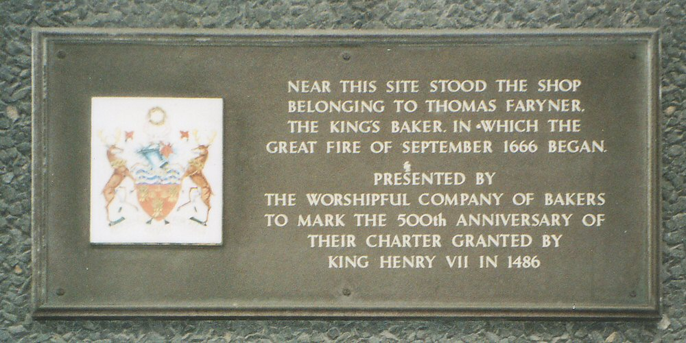 Sign commemorating the Great Fire in Pudding Lane